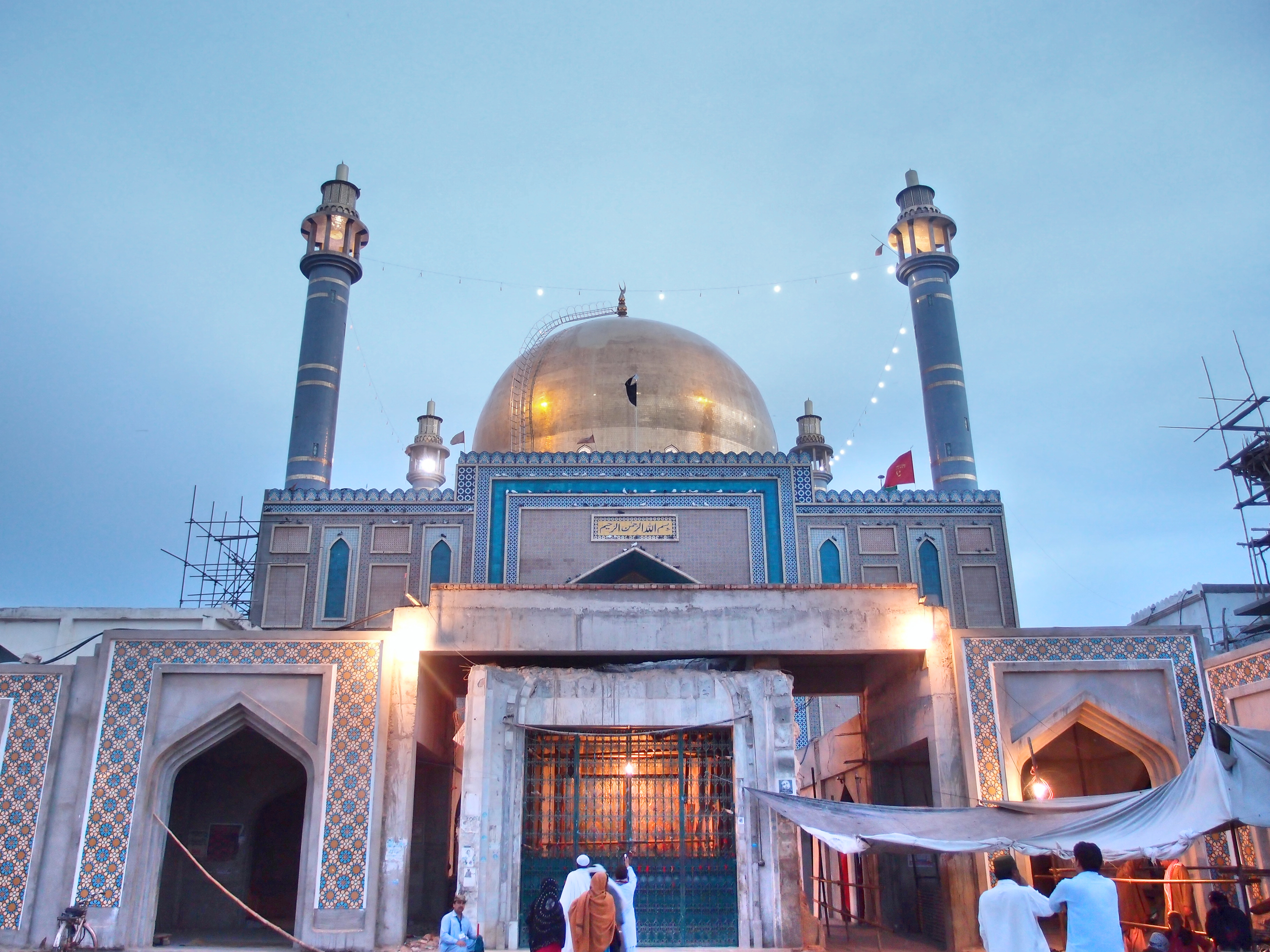 Shrine of Lal Shahbaz Qalandar